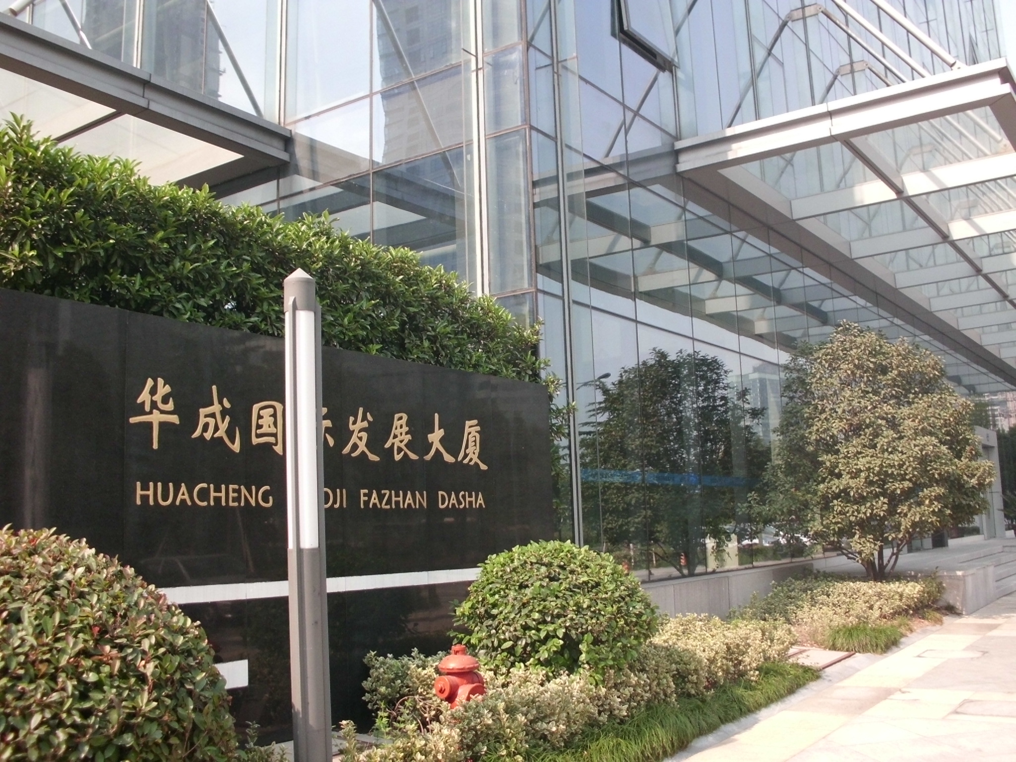 Huacheng mansion